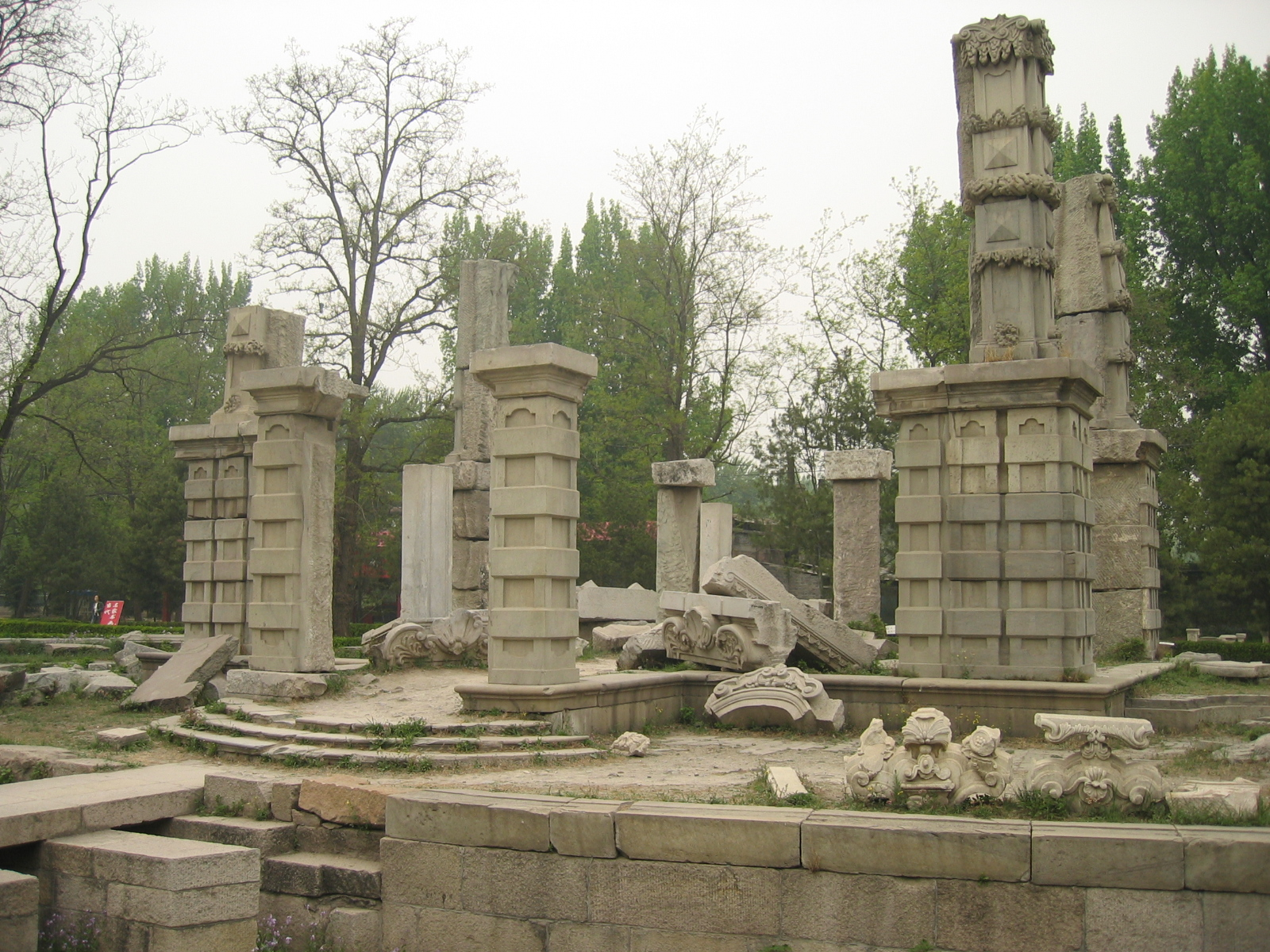 Ruins of the Fang Wai Guan, a mansion in the Xiyang Lou (Western mansions) area of the Yunamingyuan (Old Summer Palace) grounds in Beijing, China.